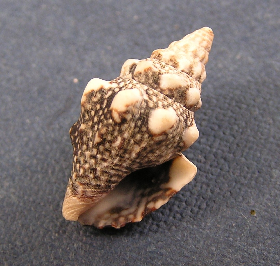 Anachis boivini (Kiener, 1841); family Columbellidae; Nicaragua